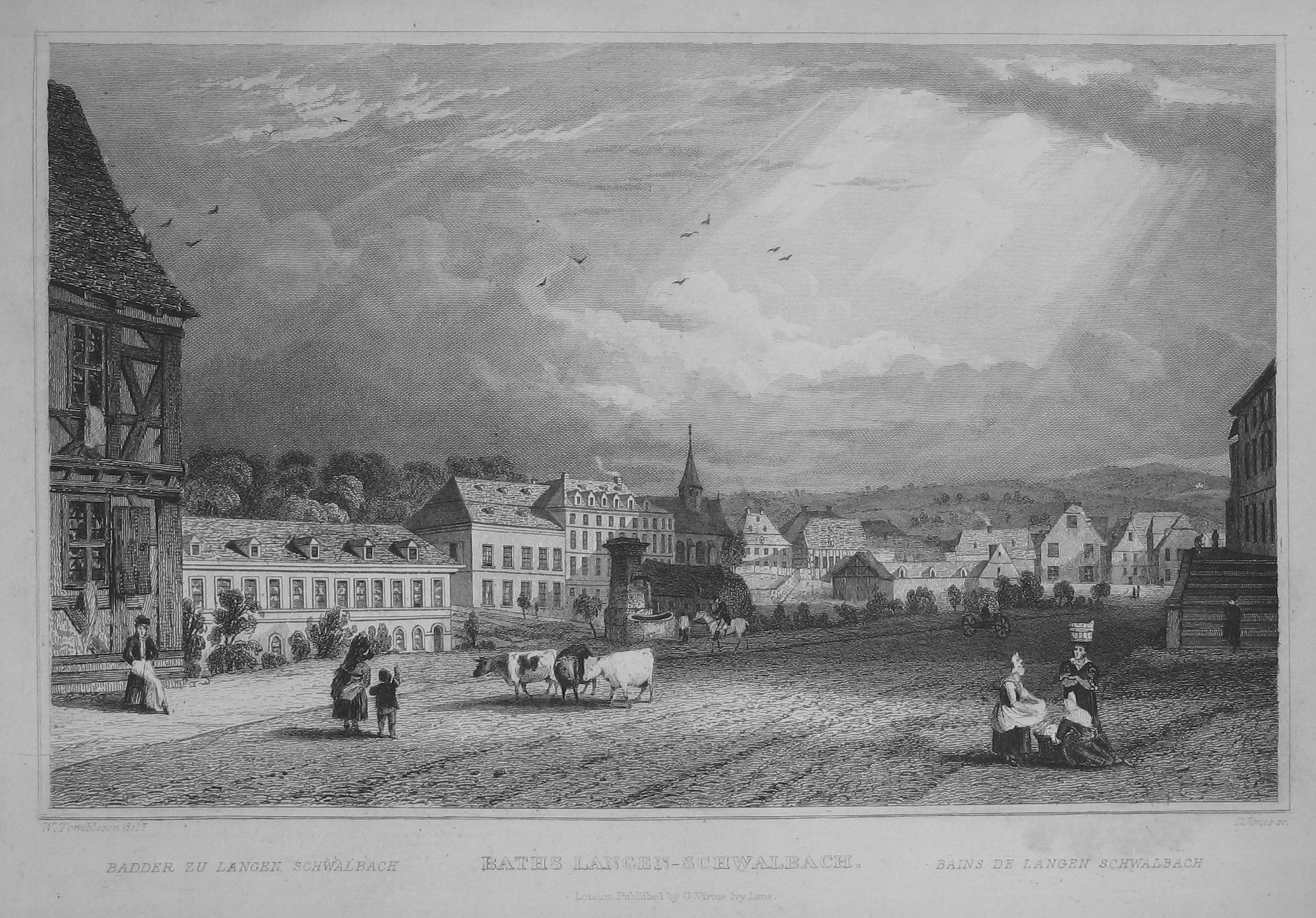 Steel engraving from "Views of the Rhine" by William Tombleson (around 1840): Spa Bad Schwalbach